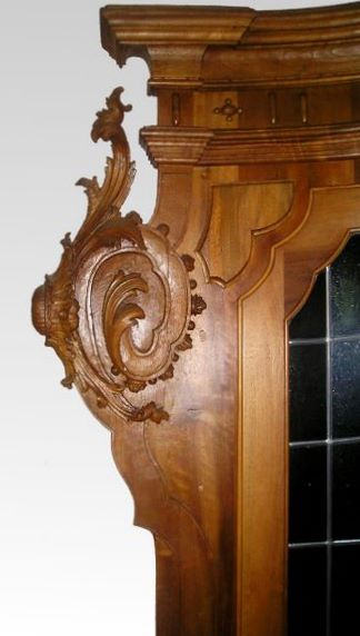 Detail of rococo style confessional by Joseph Anton Feuchtmayer, ca. 1750.